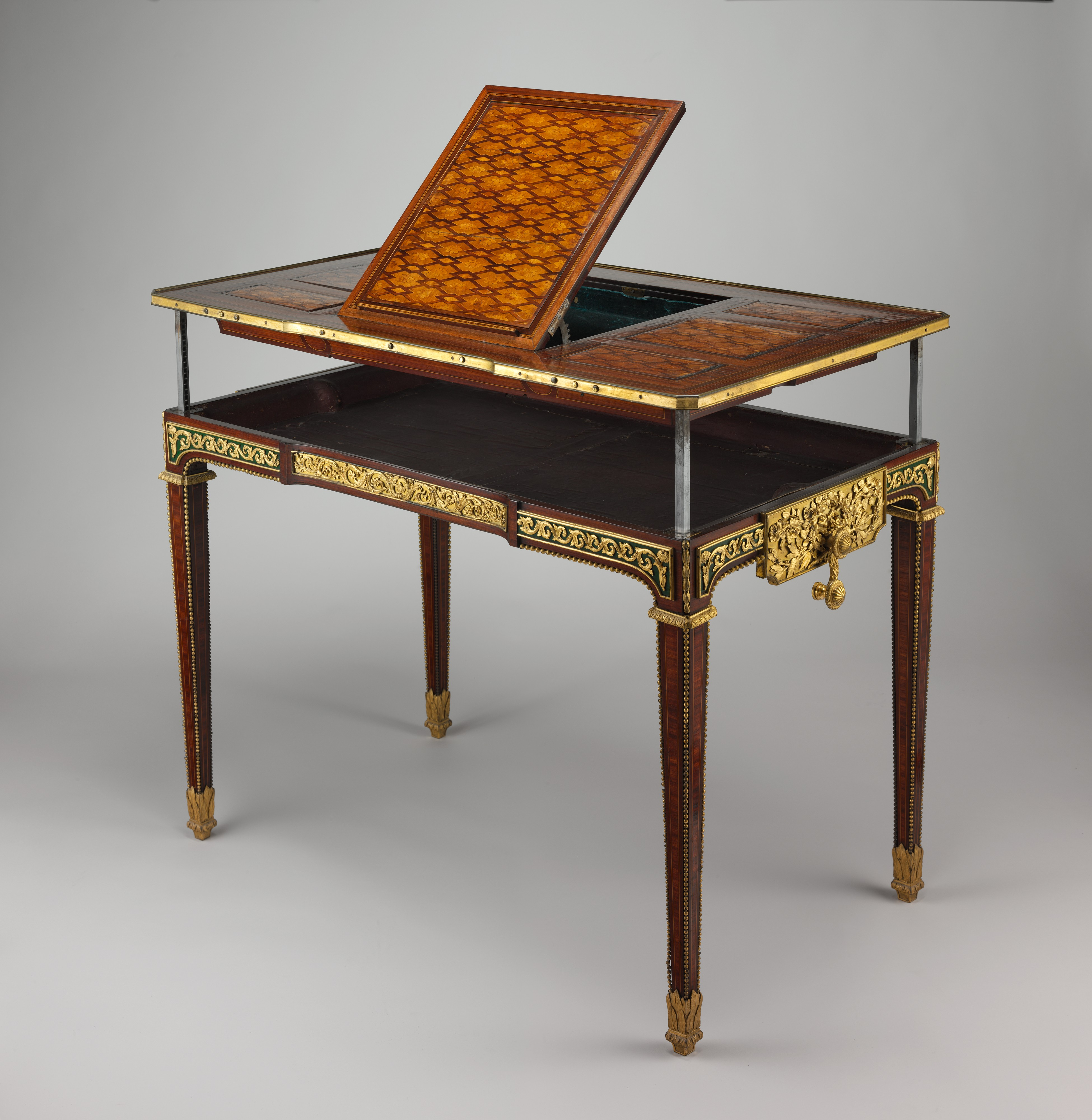 French, Paris; Mechanical table; Woodwork-Furniture